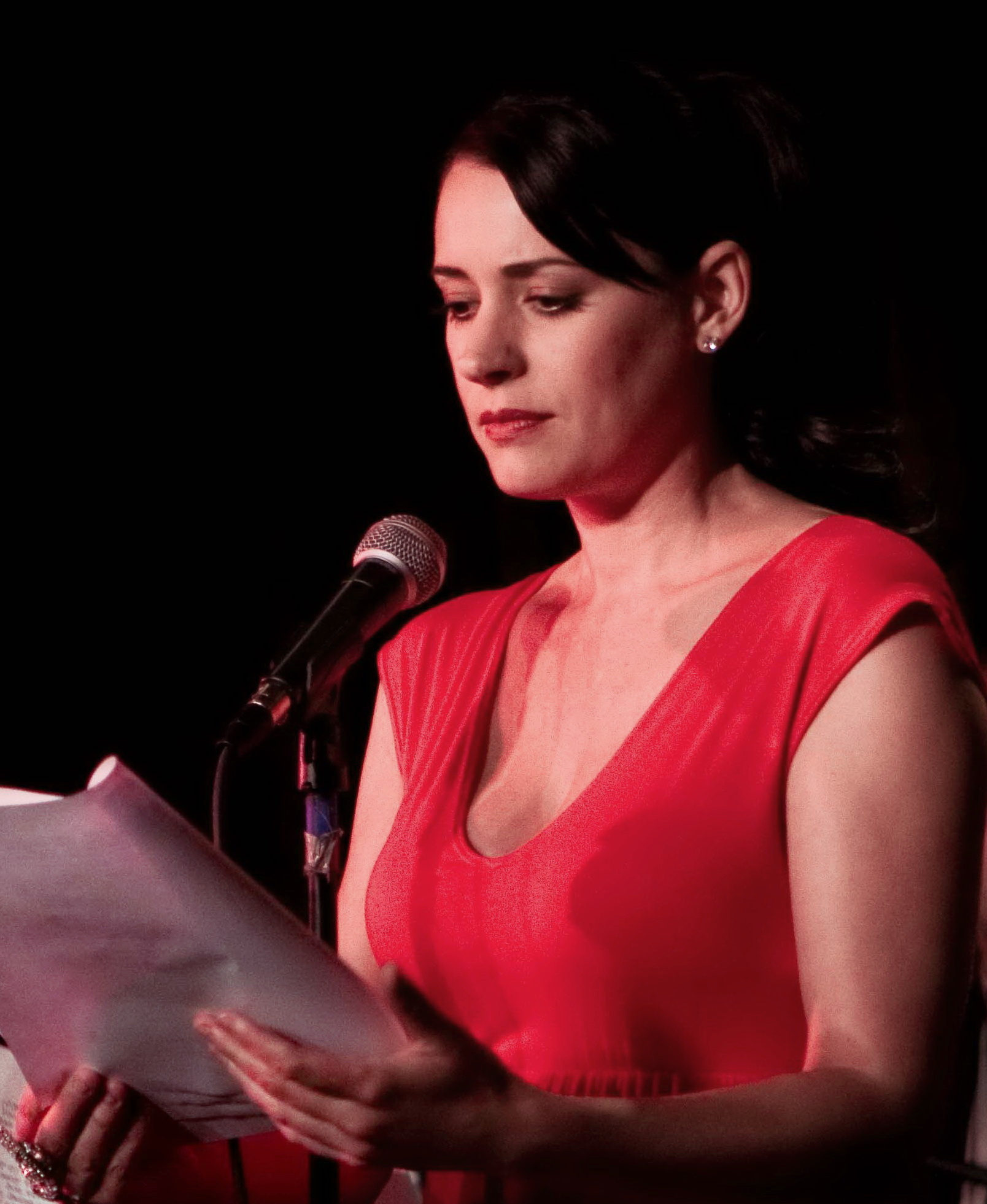 Paget Brewster performing at the Thrilling Adventure and Supernatural Suspense Hour comedy radio show.